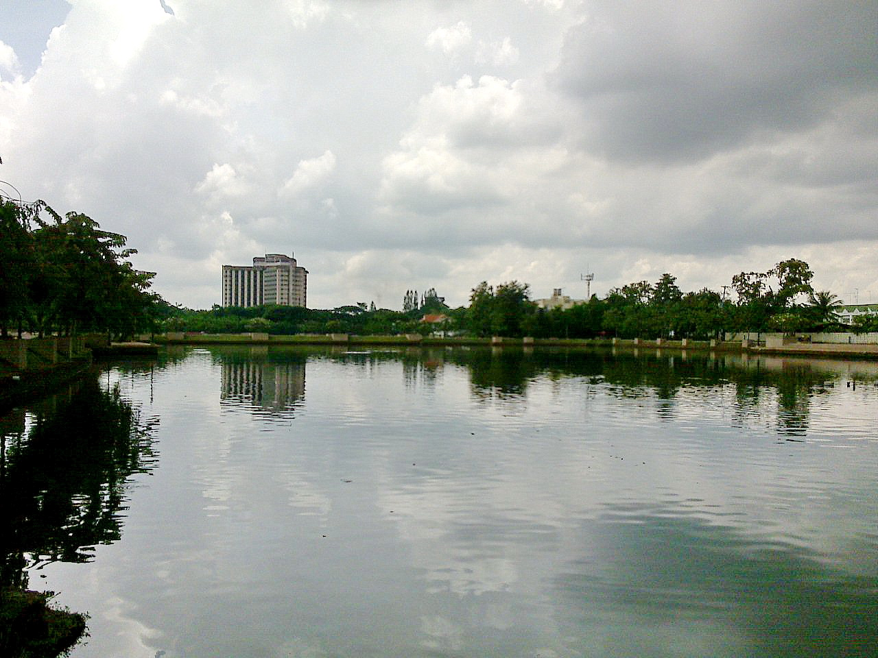 View of Sang Rung Hotel, Buriram